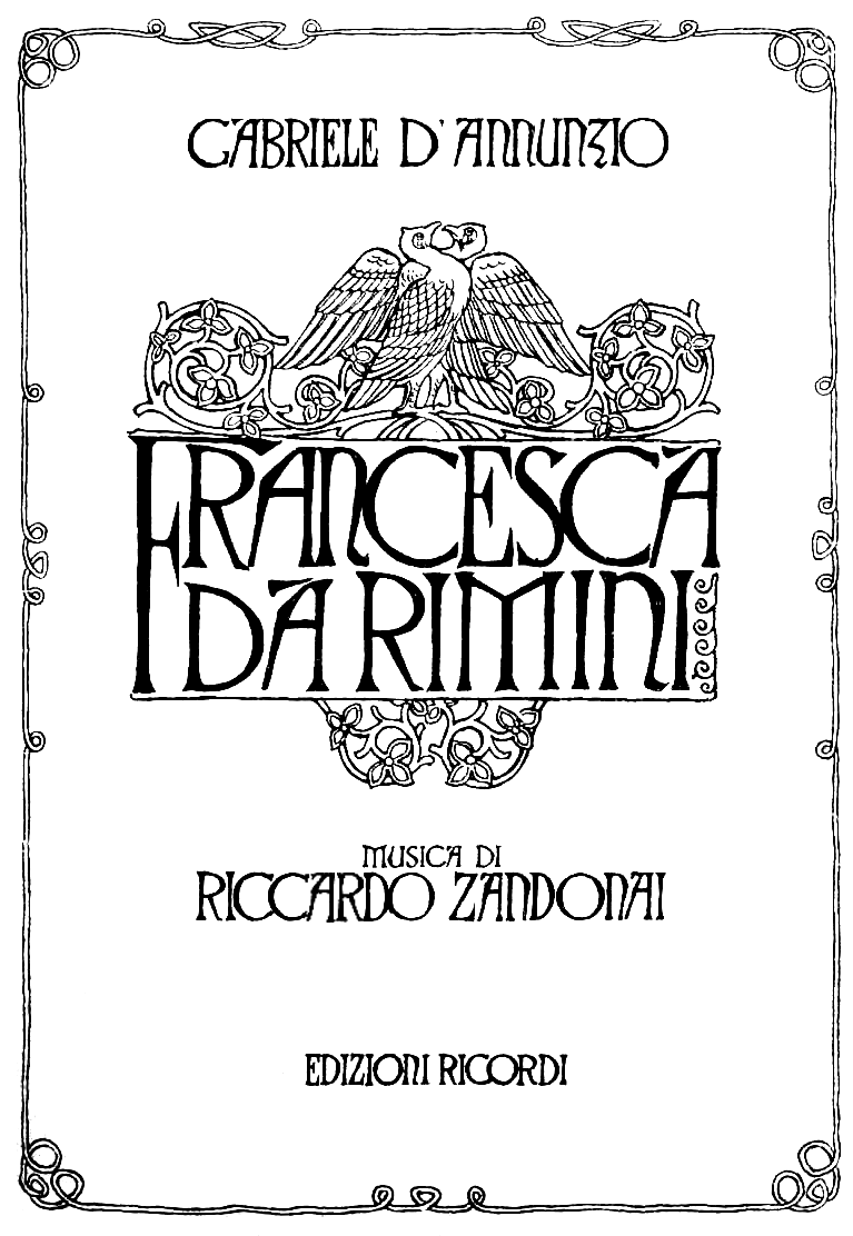 Riccardo Zandonai - Francesca da Rimini - cover of the libretto - Milan 1914